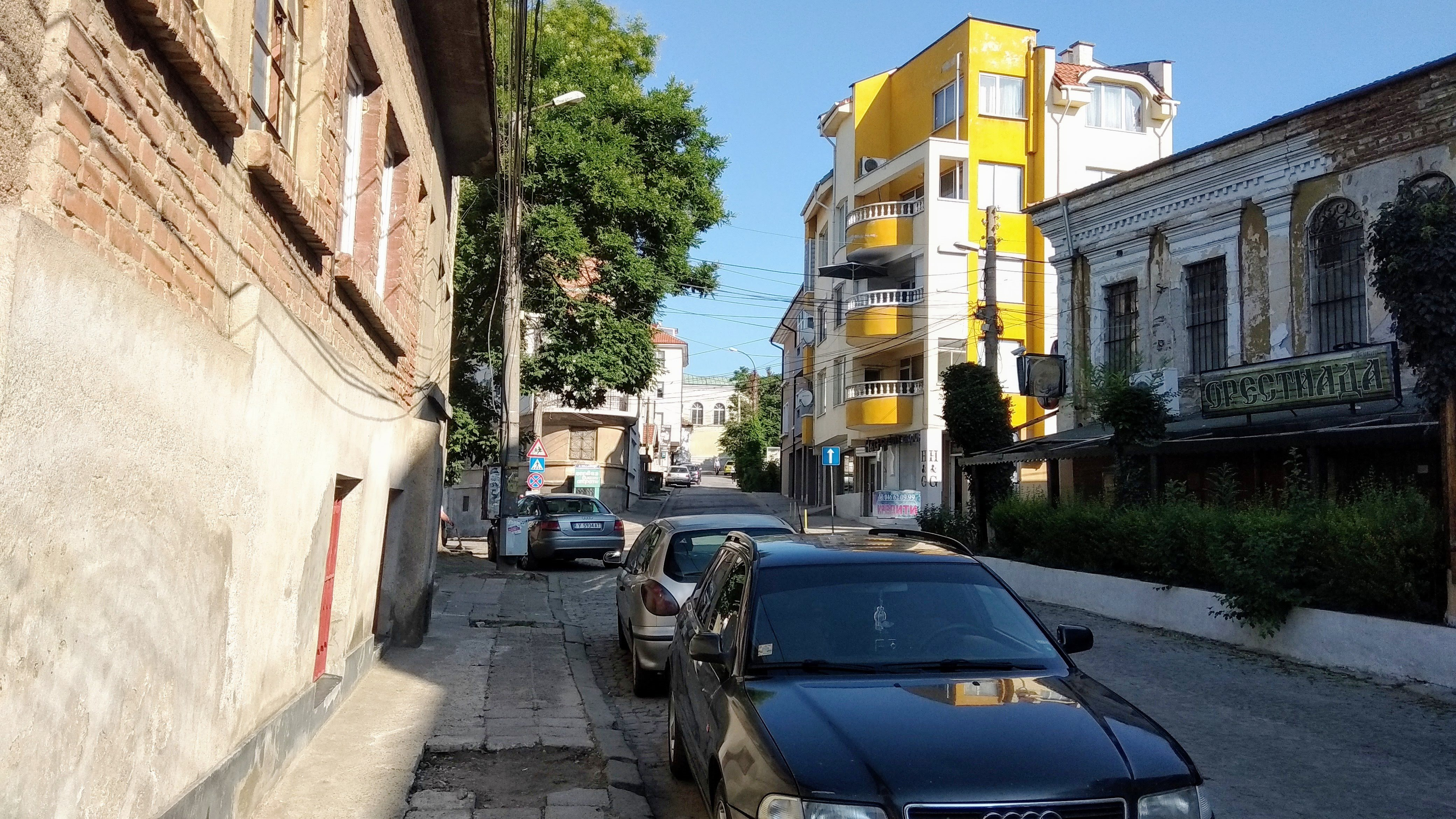 Yambol old Jewish neighbourhood